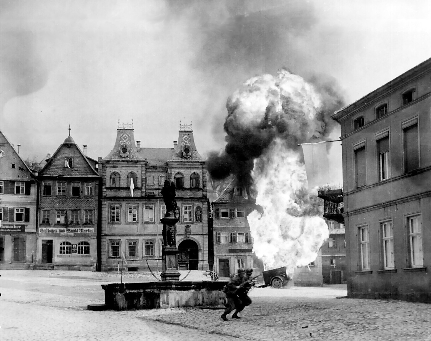 Two anti-tank Infantrymen of the 101st Infantry Regiment, dash past a blazing German gasoline trailer in square of Kronach, Germany.